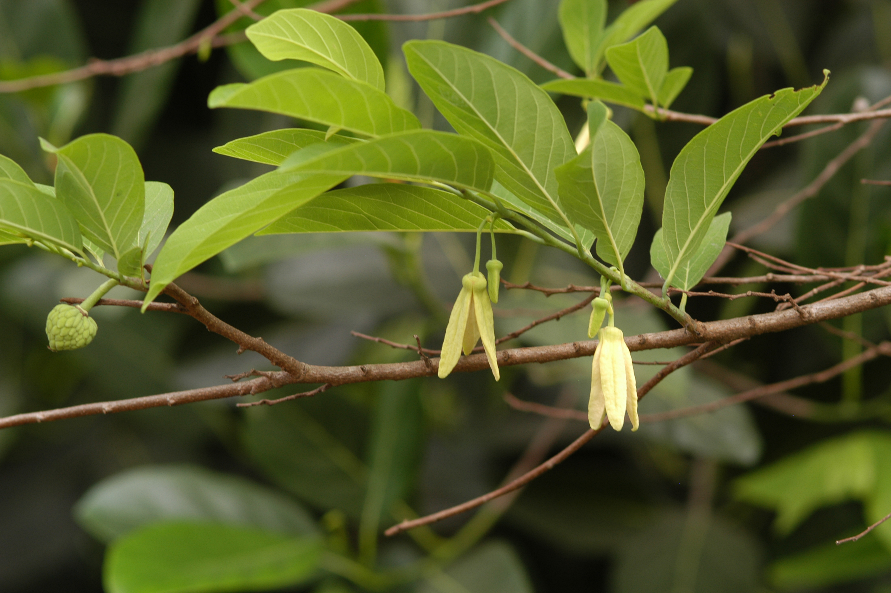 Annona squamosa